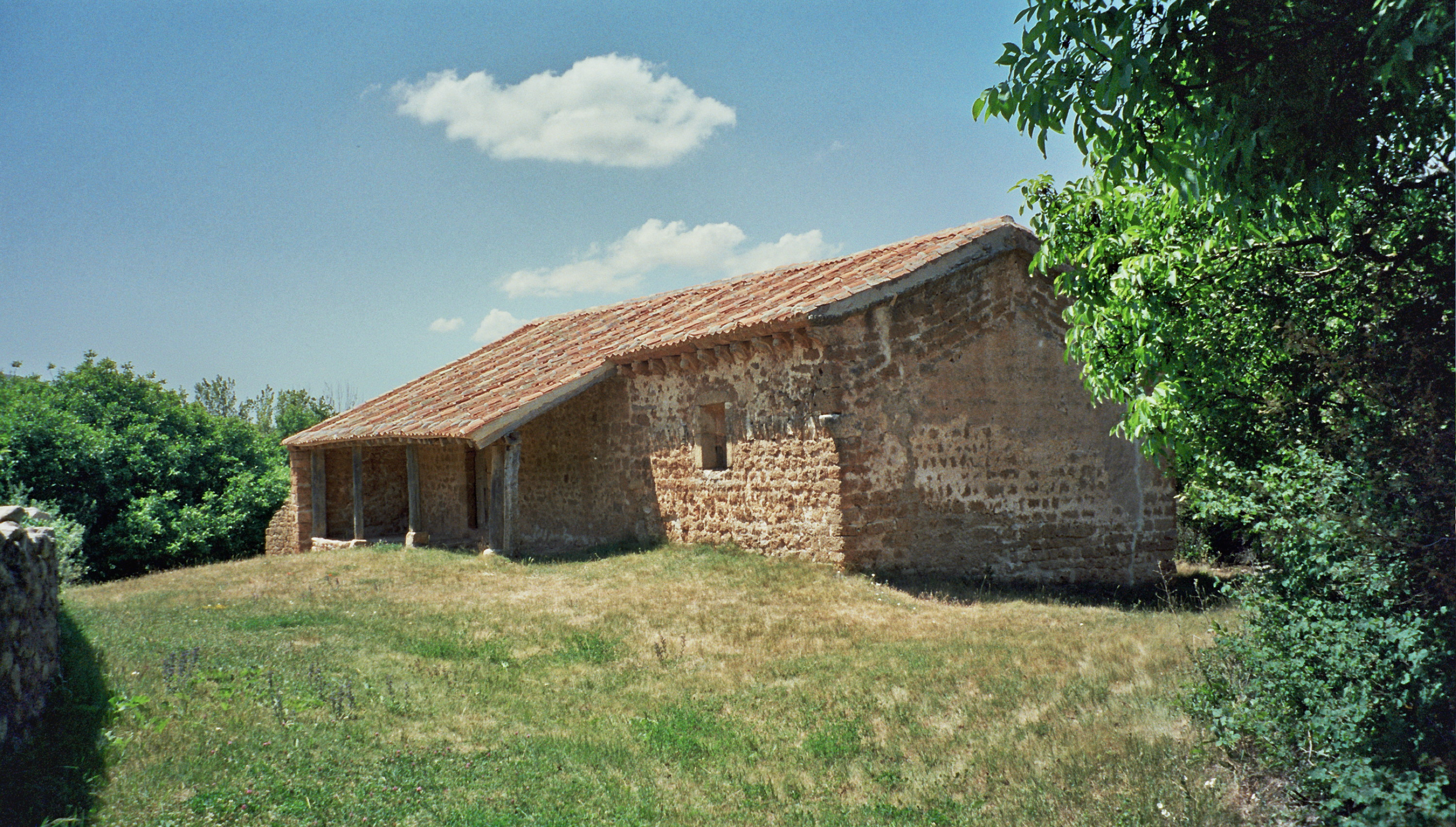 Hermitage of the Virgen del Val, Pedro, Soria (Spain).